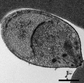 A transmission electron micrograph of a Plasmodium knowlesi merozoite attached to a red blood cell.